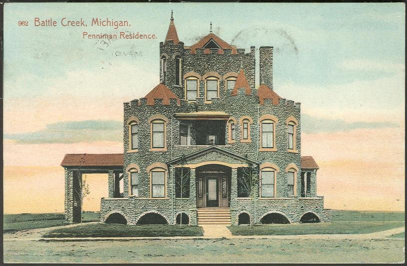 Color postcard showing a photo of Penniman Castle, located at 443 Main Street, Battle Creek c. 1908.